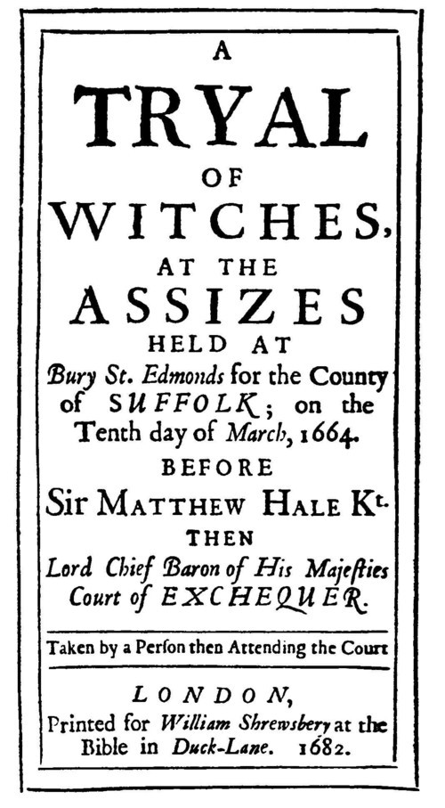 frontispiece of report of 1664 trial then used by Magistrates at Salem trials of 1692-3